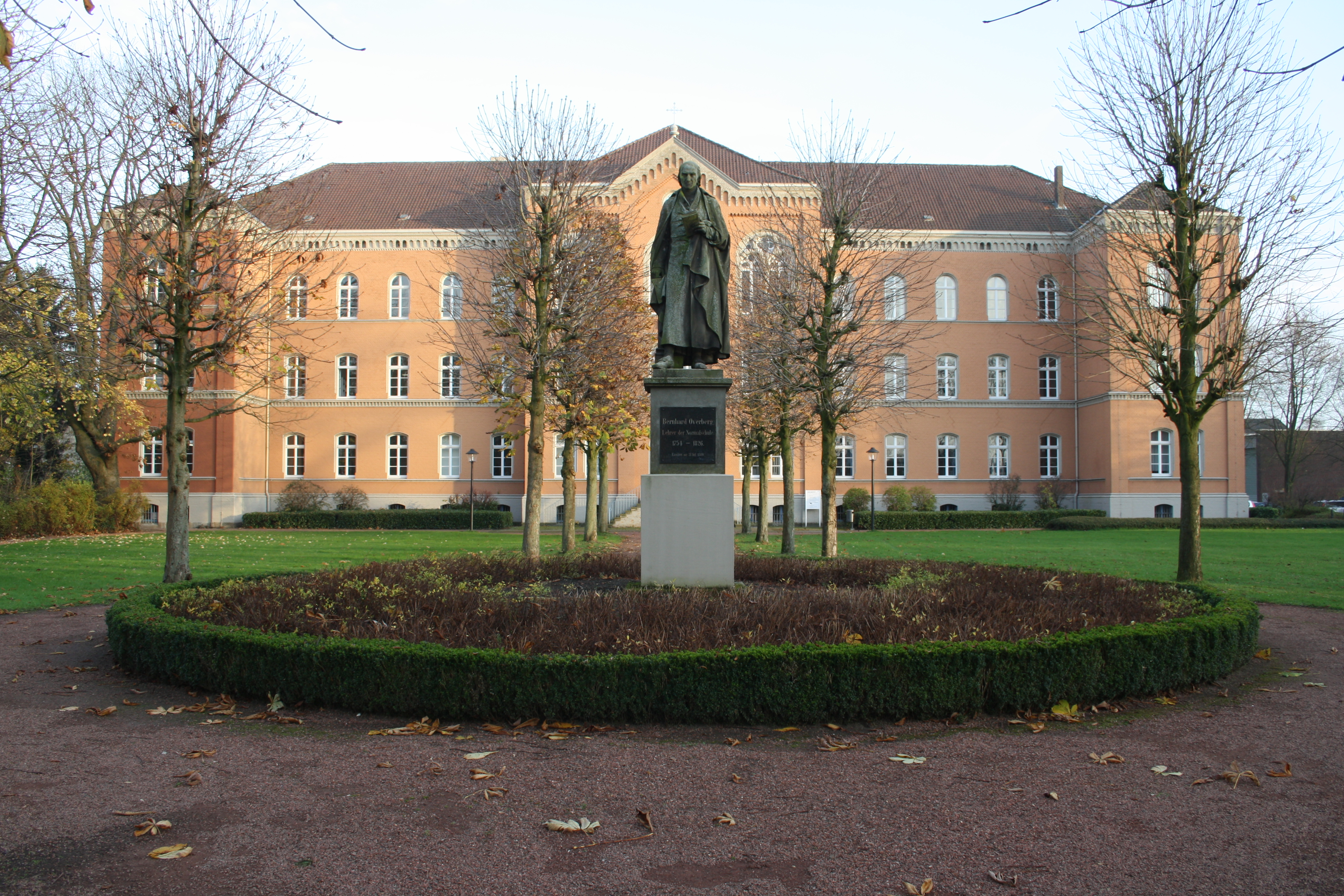 Warendorf Freckenhorster Str. 43 formerly high school, now school for adult education programs. In the front a monument of Overberg This is a photograph of an architectural monument.